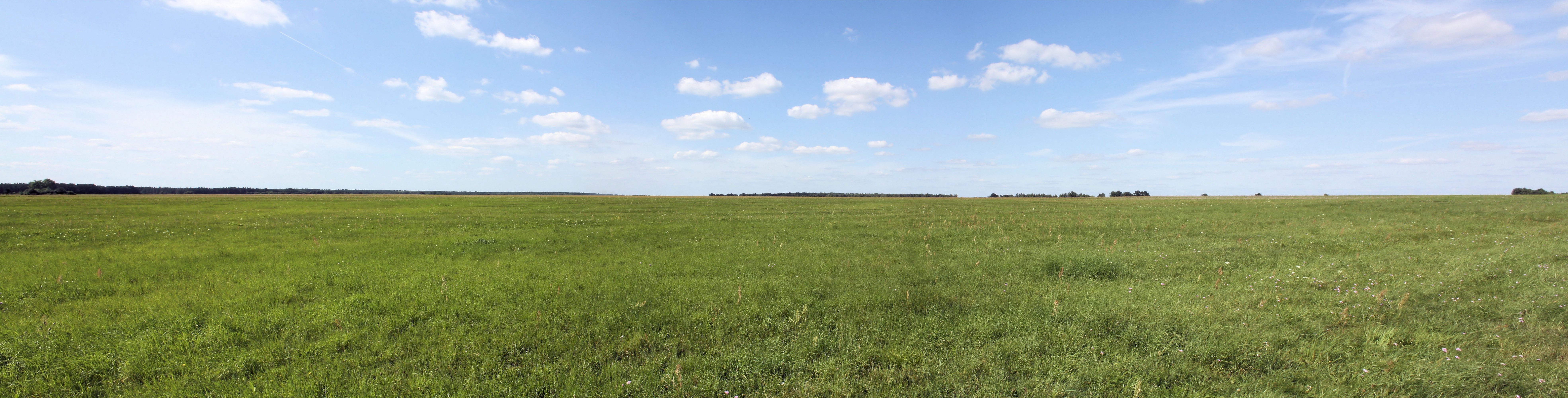 Panorama of a meadow, near Podlodów.